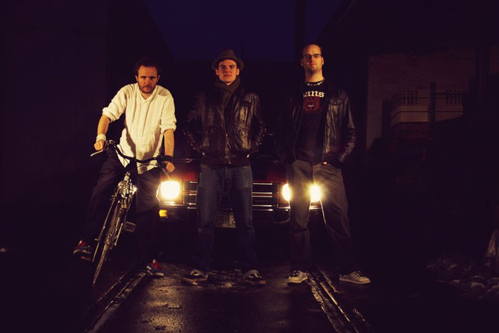 The Rockband Second Function in 2010